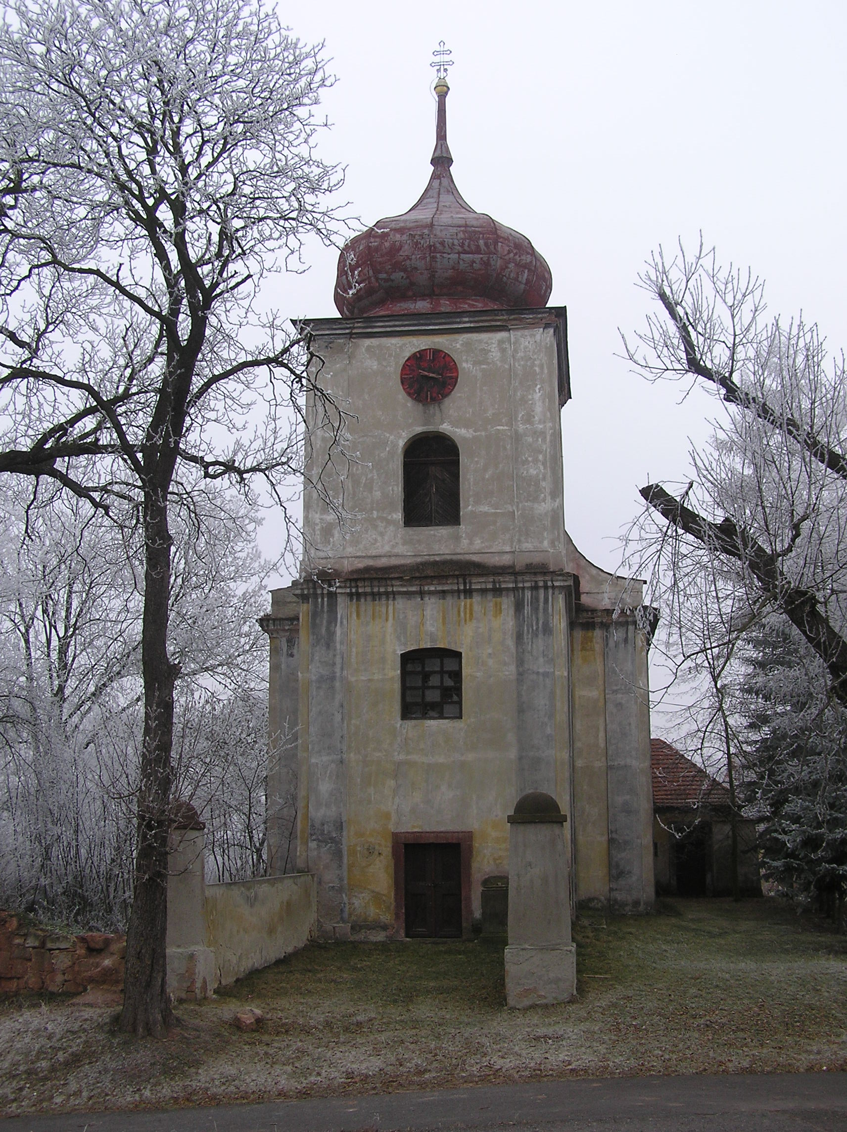 Church of St. George in Soběchleby (Louny District)